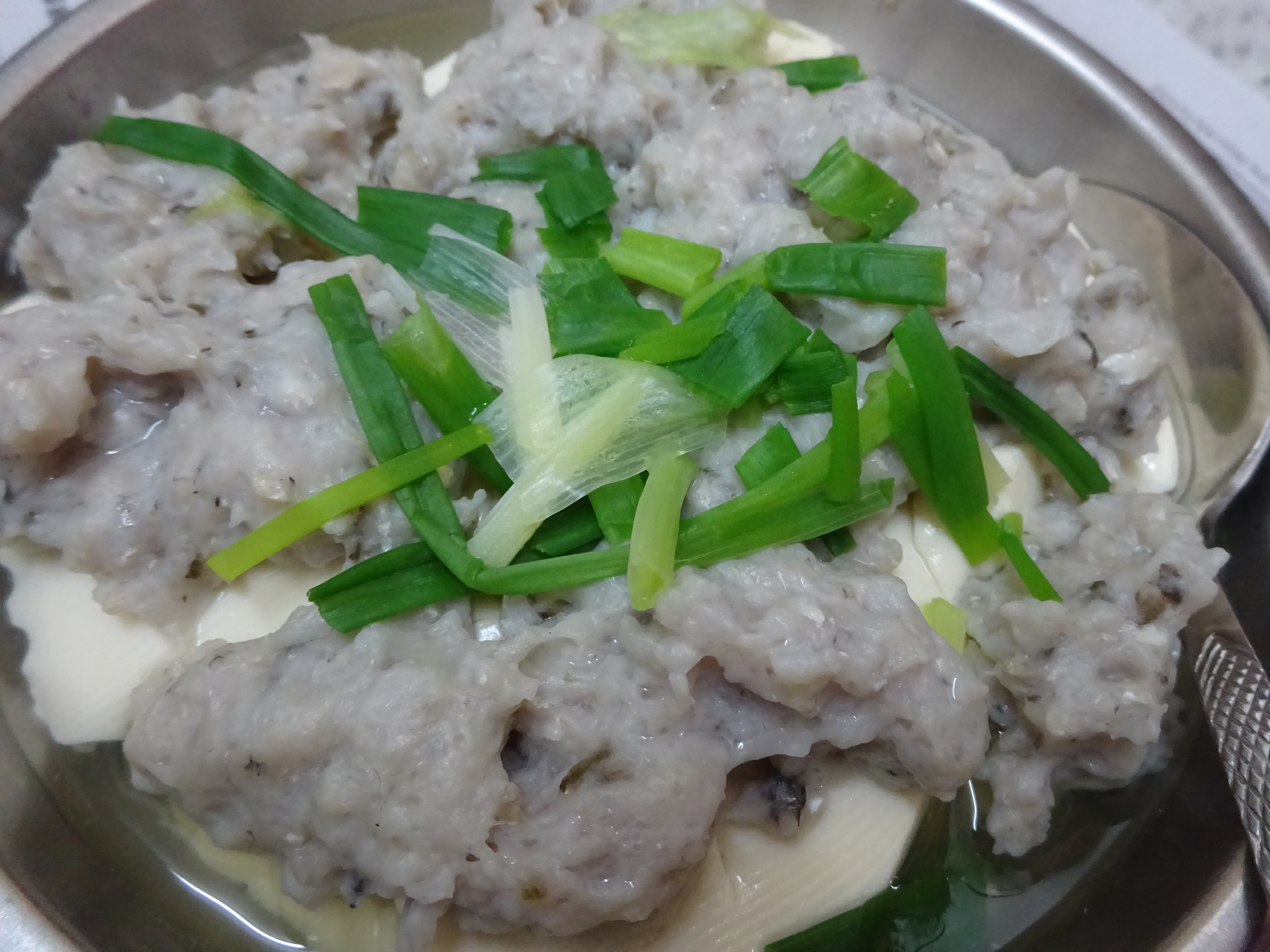 food steamed Minced mud carp 鯪魚 Dace fish meat 肉魚 Bean Curd Tufo product 豆腐製品 Chinese spring onion